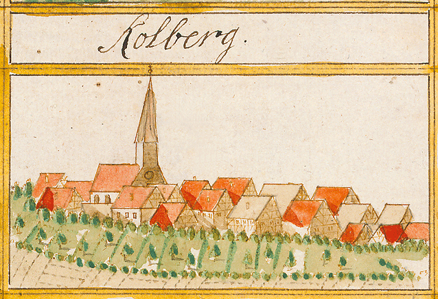 View of Kohlberg from the forest register books created by Andreas Kieser